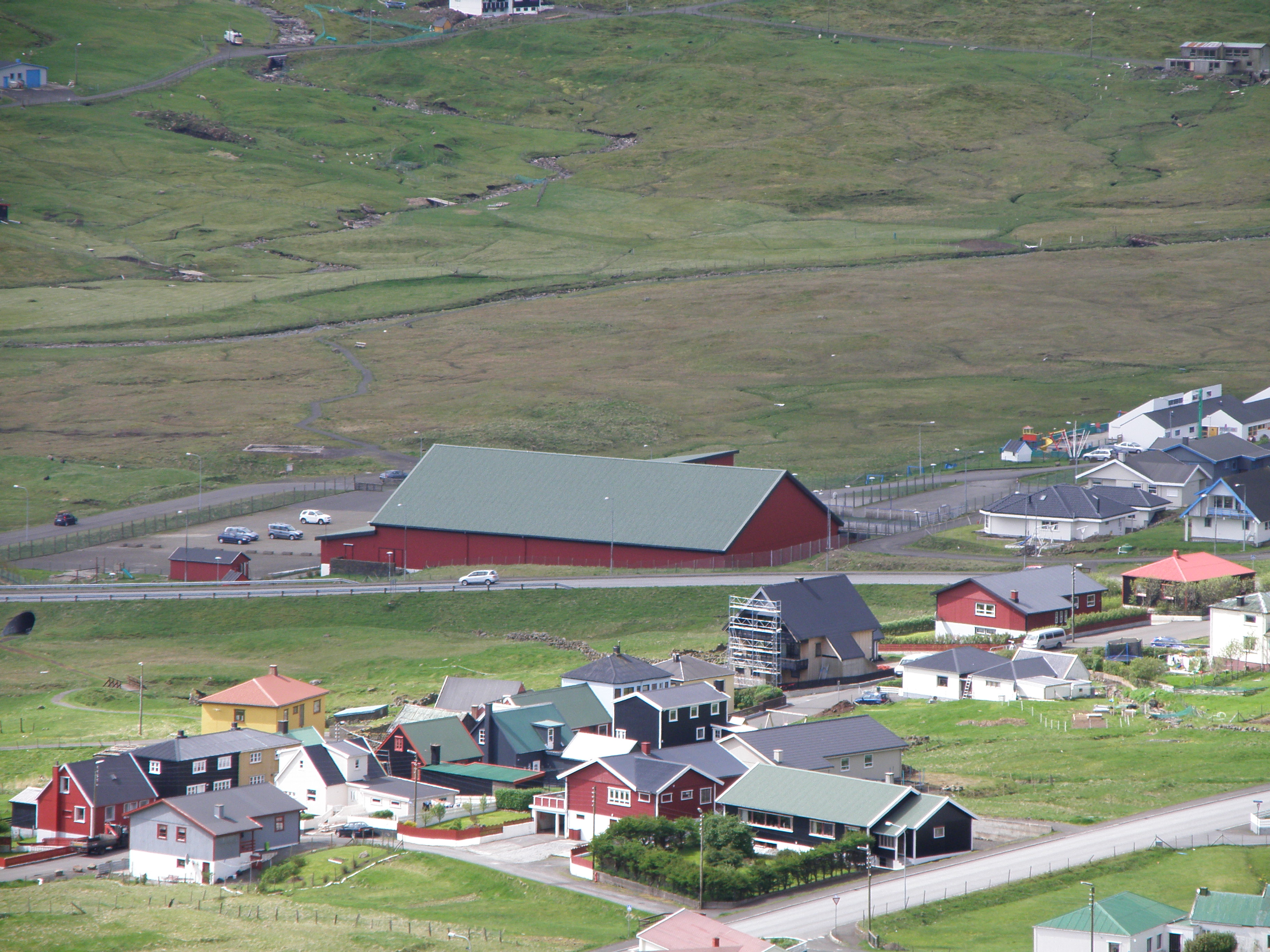 The Sports hall in Trongisvágur, Suðuroy, Faroe Islands. The parking area is also camping. Føroyskt: Ítróttarhøllin í Trongisvági, Suðuroy, Føroyar. Parkeringsøki er eisini camping pláss.